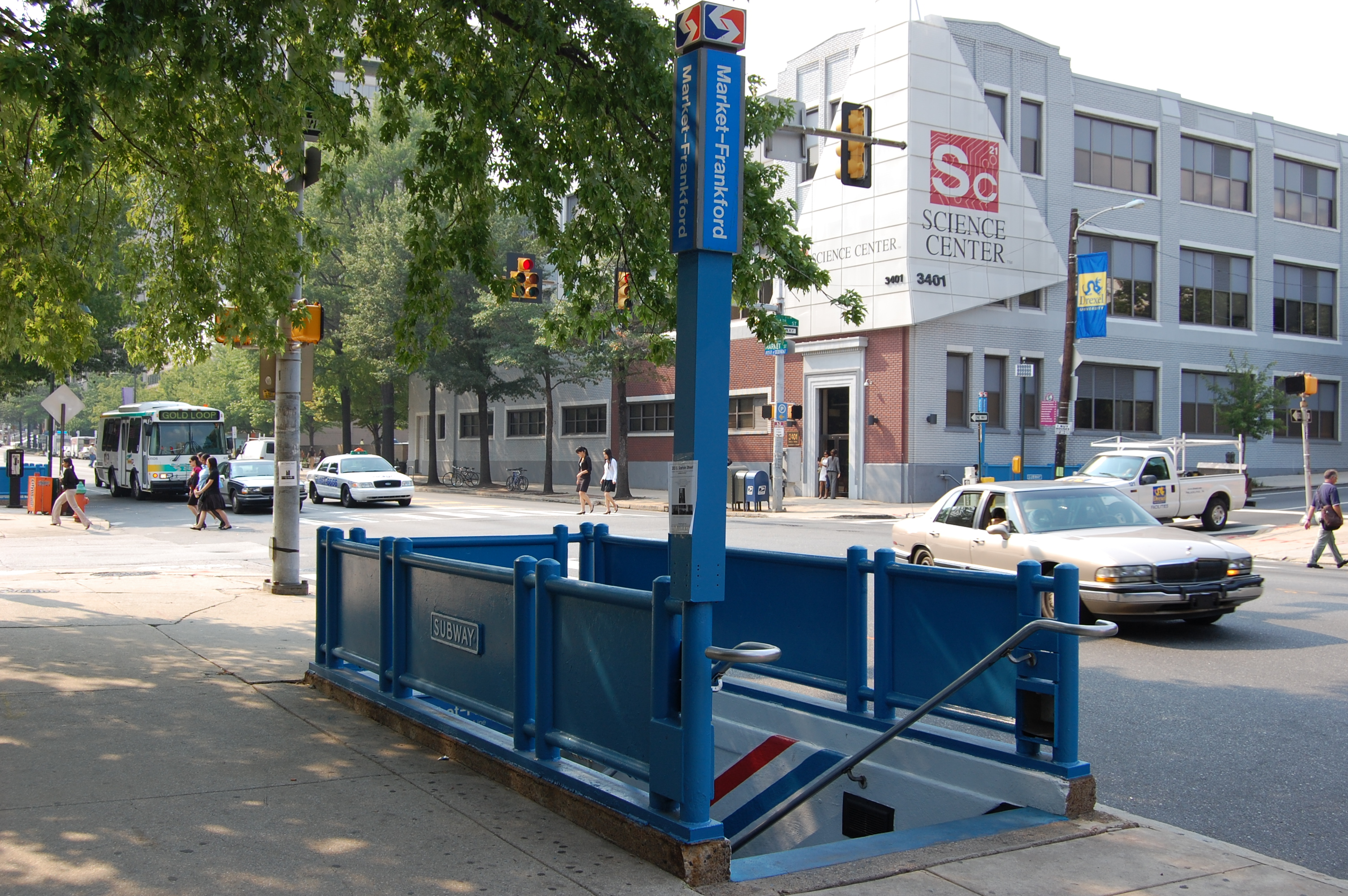 34th Street Station Entrance